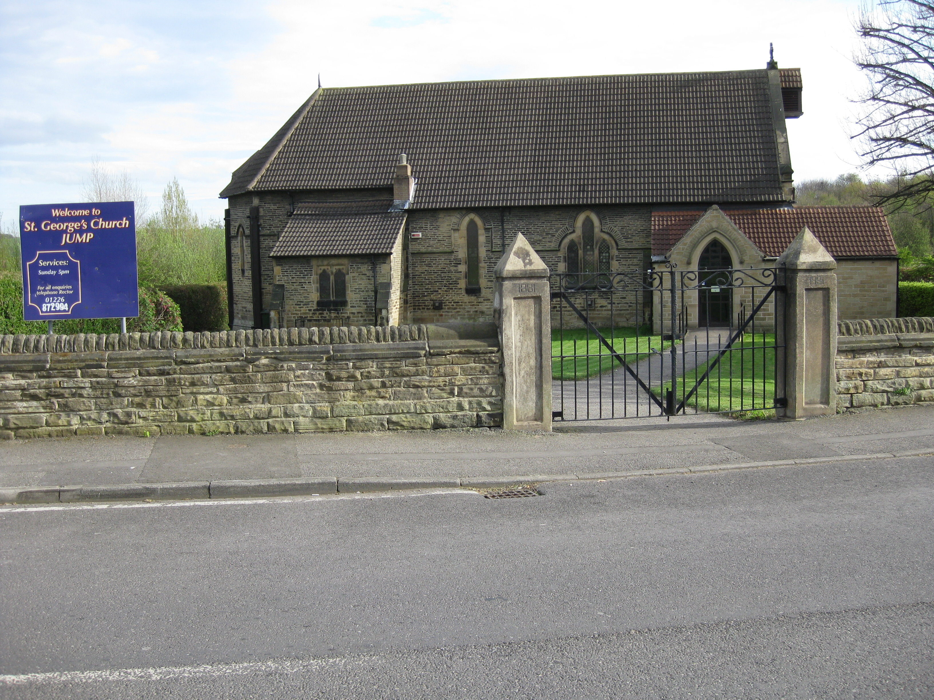 St George's Church, Church Street, Jump, South Yorkshire